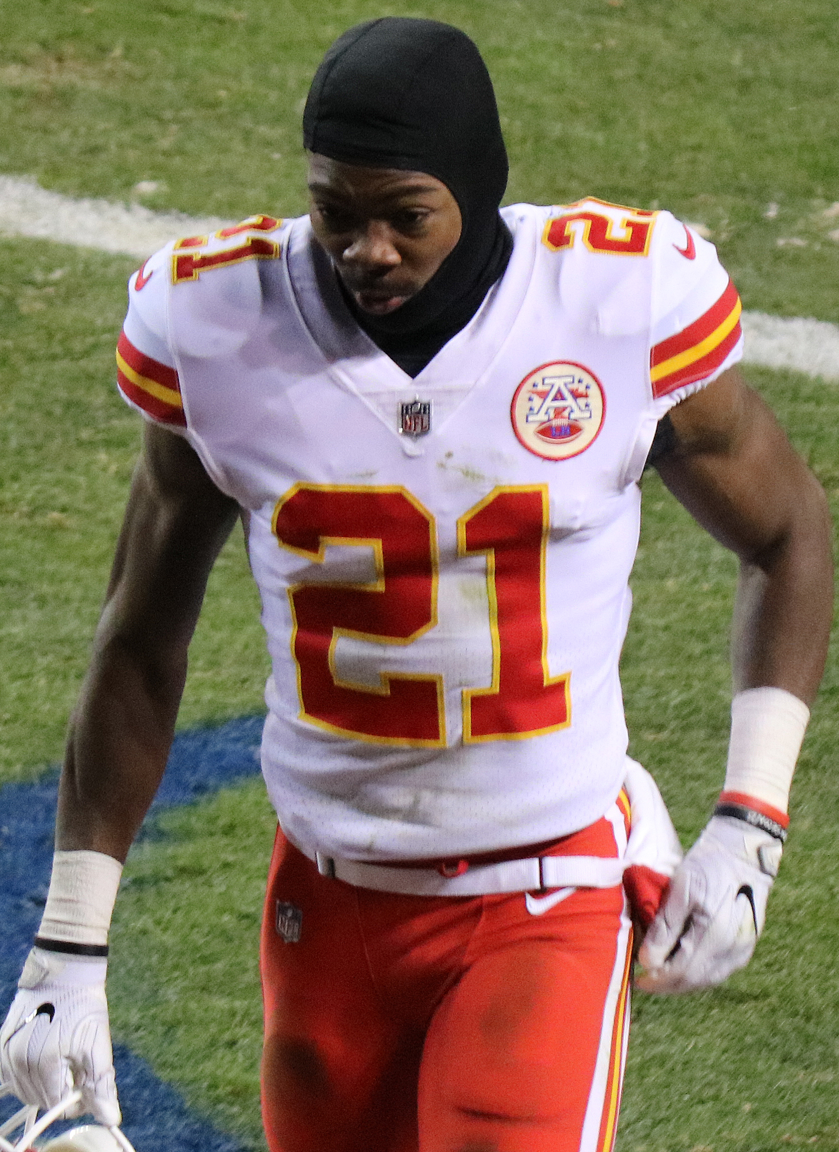 Eric Murray, a National Football League player.